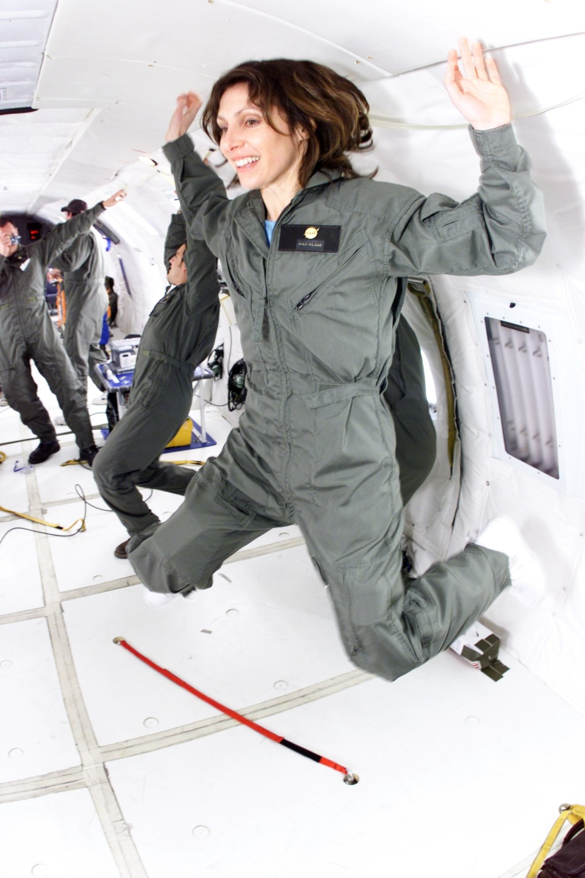 Flying aboard NASA's astronaut training plane while reporting a story.